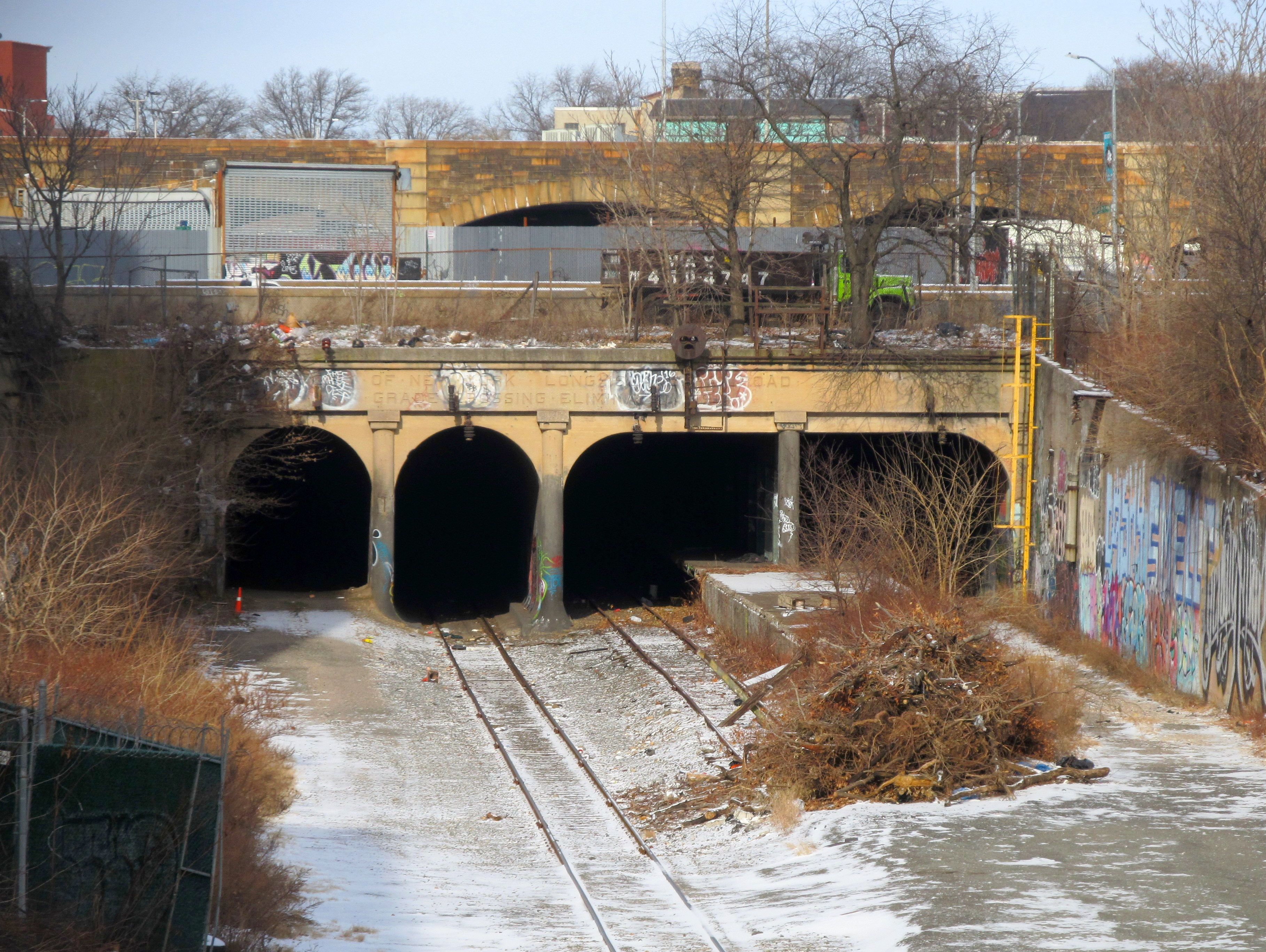 Abandoned Bay Ridge Branch platform at East New York station in December 2017